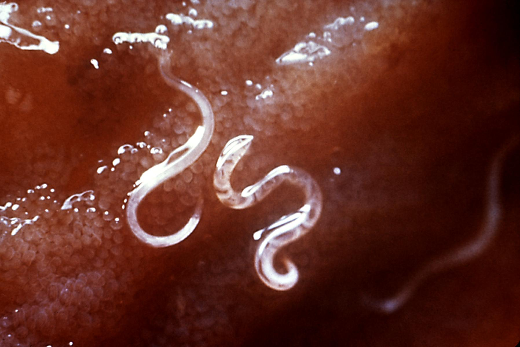 Ancylostoma caninum, a type of hookworm, attached to the intestinal mucosa. Source:CDC's Public Health Image Library Image #5205